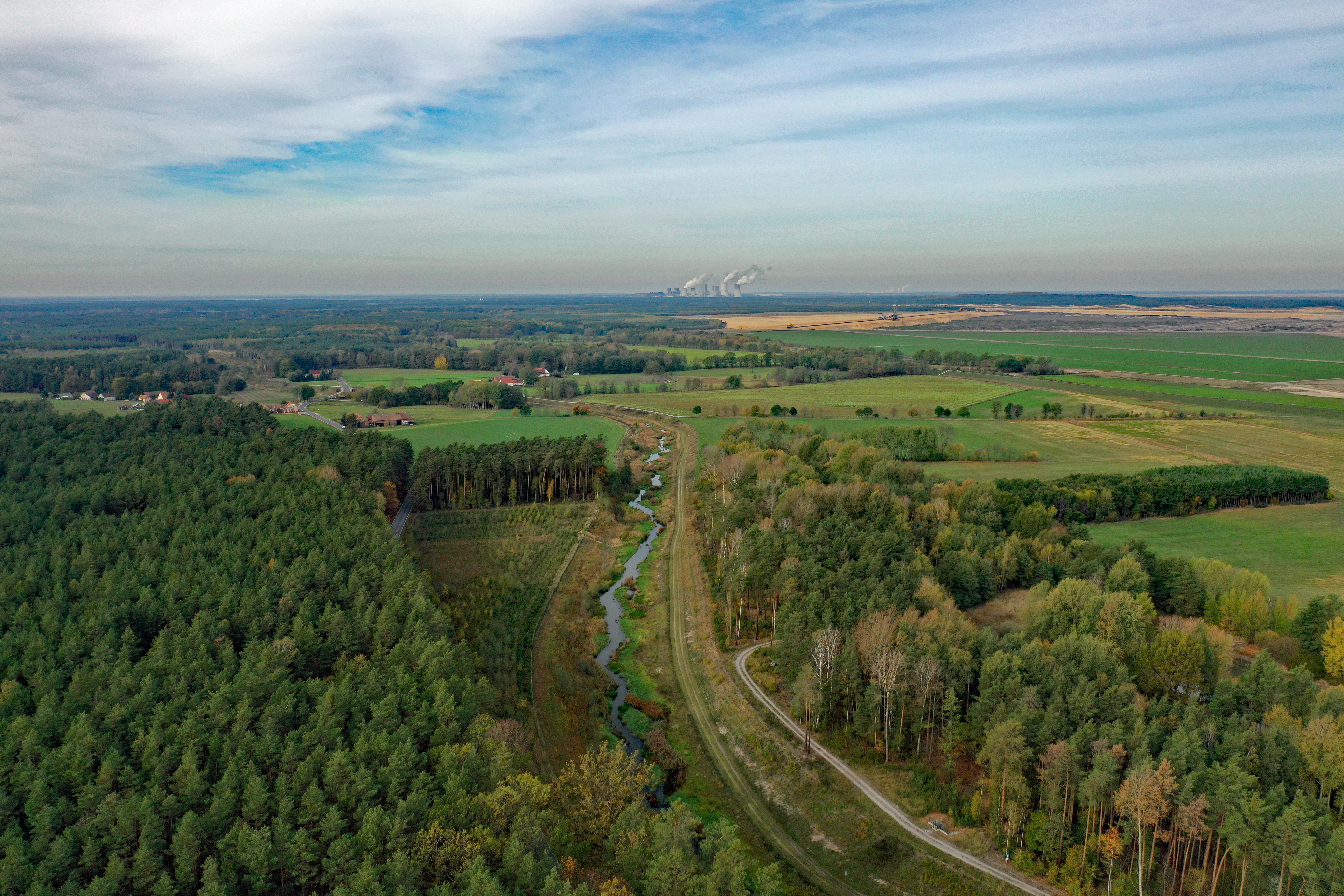 Neuliebel (Rietschen, Landkreis Görlitz, Saxony, Germany) Hornjoserbsce: Powětrowy wobraz Běłeho Šepca pola Noweho Lubolnja z Hamorskej milinarnju w pozadku